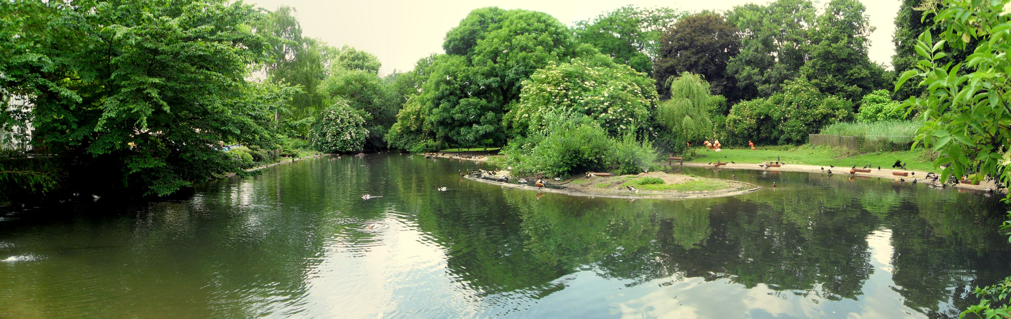 Zoo Krefeld (lake)